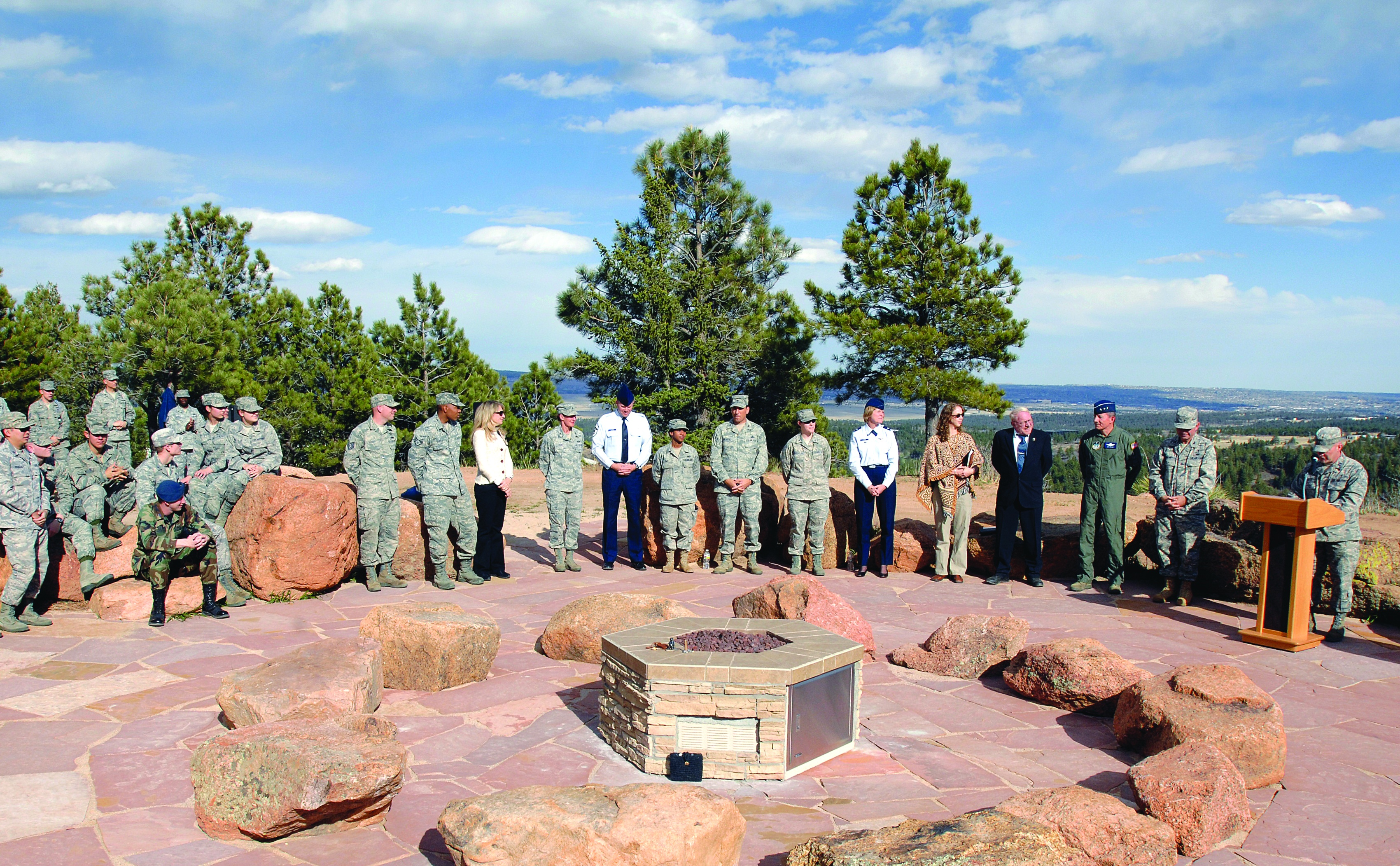 2010 dedication of United States Air Force Academy (USAFA) "Cadet Falcon Chapel Circle" -- the "stone circle" established primarily for the religious/worship use of Academy officers and cadets of "Earth centered" religions, such as Wicca or other groups identifying themselves within the overall rubric of Pagan beliefs. It is located on a hill between the Academy Visitor's Center and the Cadet Chapel.